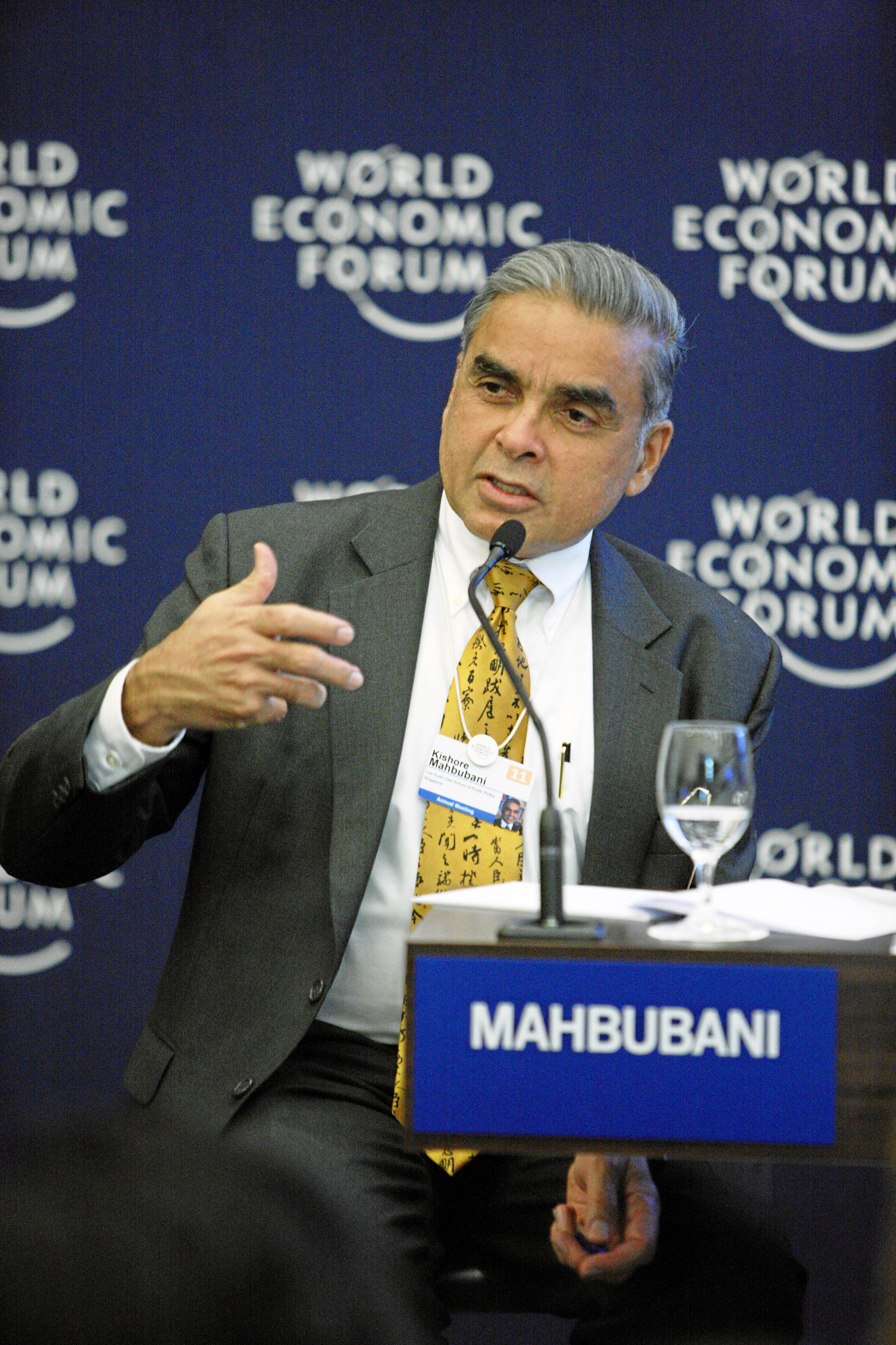 DAVOS/SWITZERLAND, 26JAN11 - Kishore Mahbubani, Dean, Lee Kuan Yew School of Public Policy, Singapore; Global Agenda Council on Institutional Governance Systems speaks during the session 'Insights on East Asia' at the Annual Meeting 2011 of the World Economic Forum in Davos, Switzerland, January 26, 2011. Copyright by World Economic Forum by Remy Steinegger